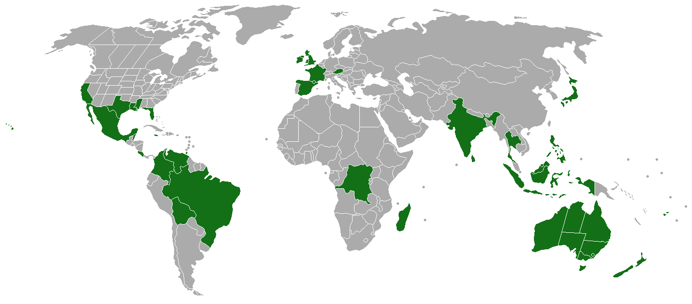 Panaeolus cyanescens range map (Approximate) Created using a blank map from the commons and data from A Worldwide Geographic Distribution of the Neurotropic Fungi. This raster graphics image was created with GIMP.